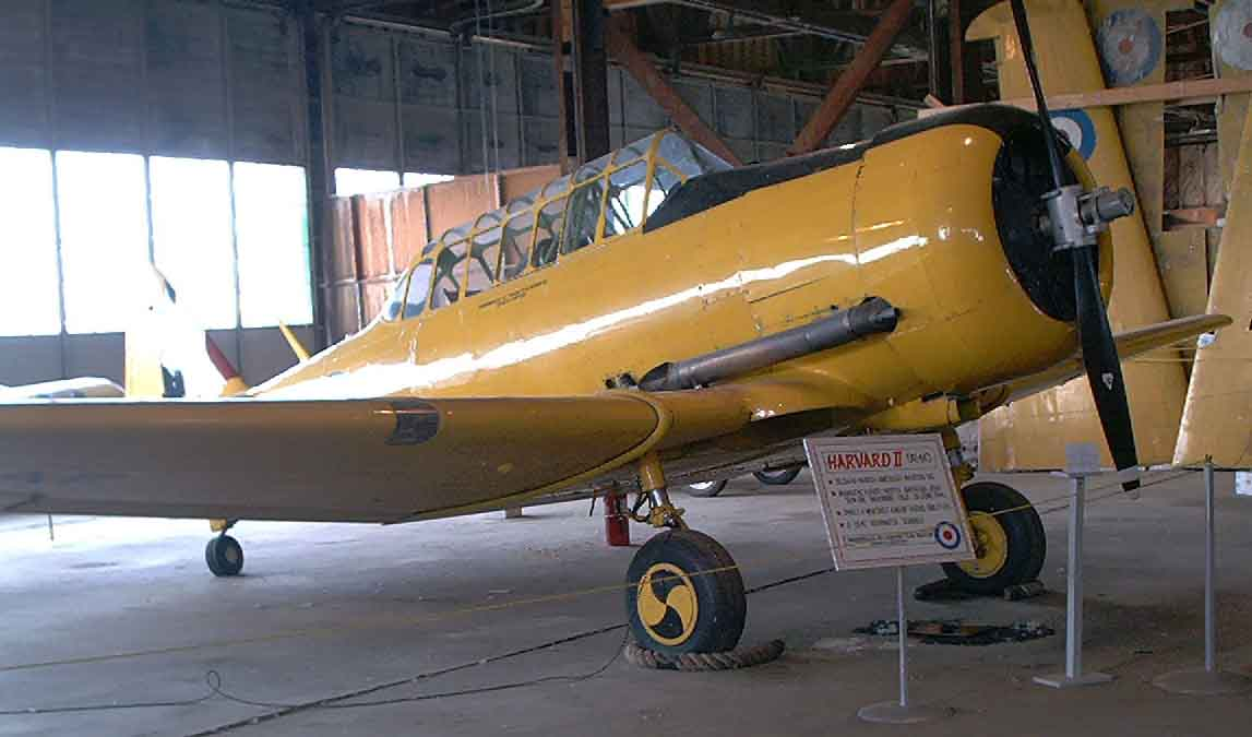 Harvard Mk.II (T-6 Texan) training aircraft of the British Commonwealth Air Training Plan on display at the Commonwealth Air Training Plan Museum.